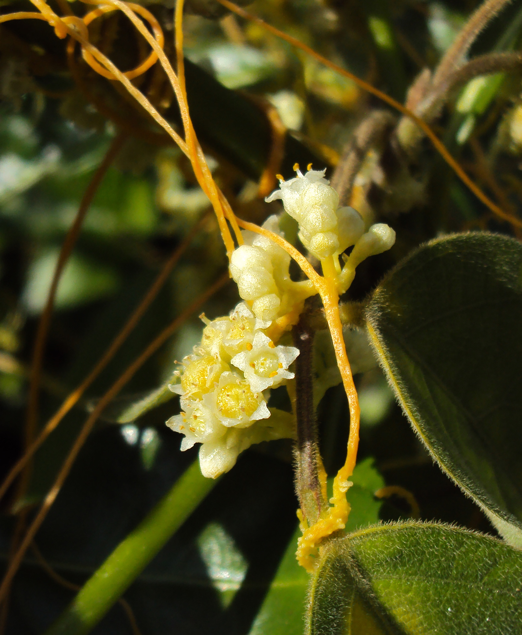 Cuscuta chinensis